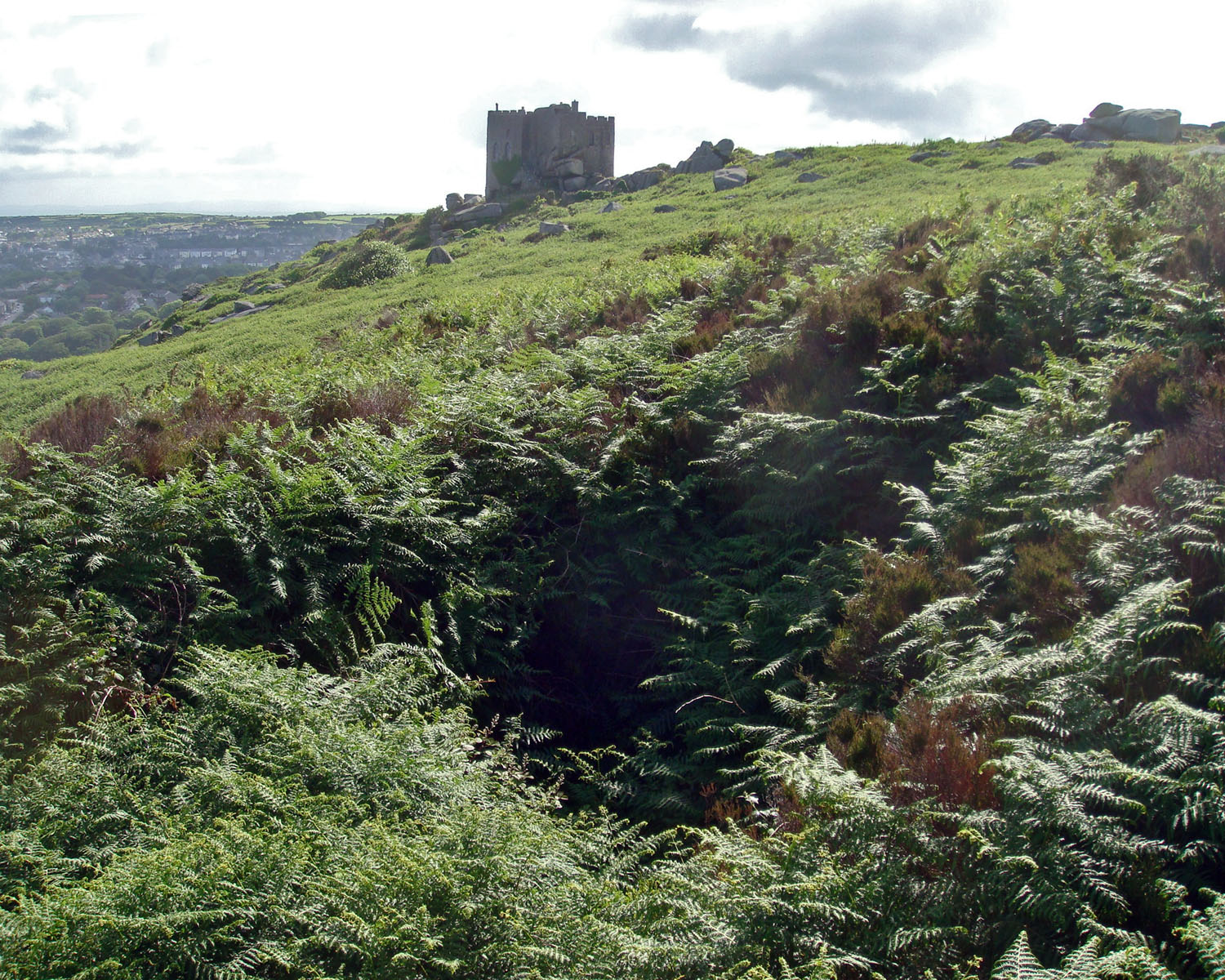 Entrance to the Smugglers' Cave tunnel on Carn Brea.